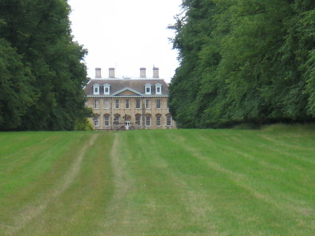 Walcott Hall from the Hereward Way